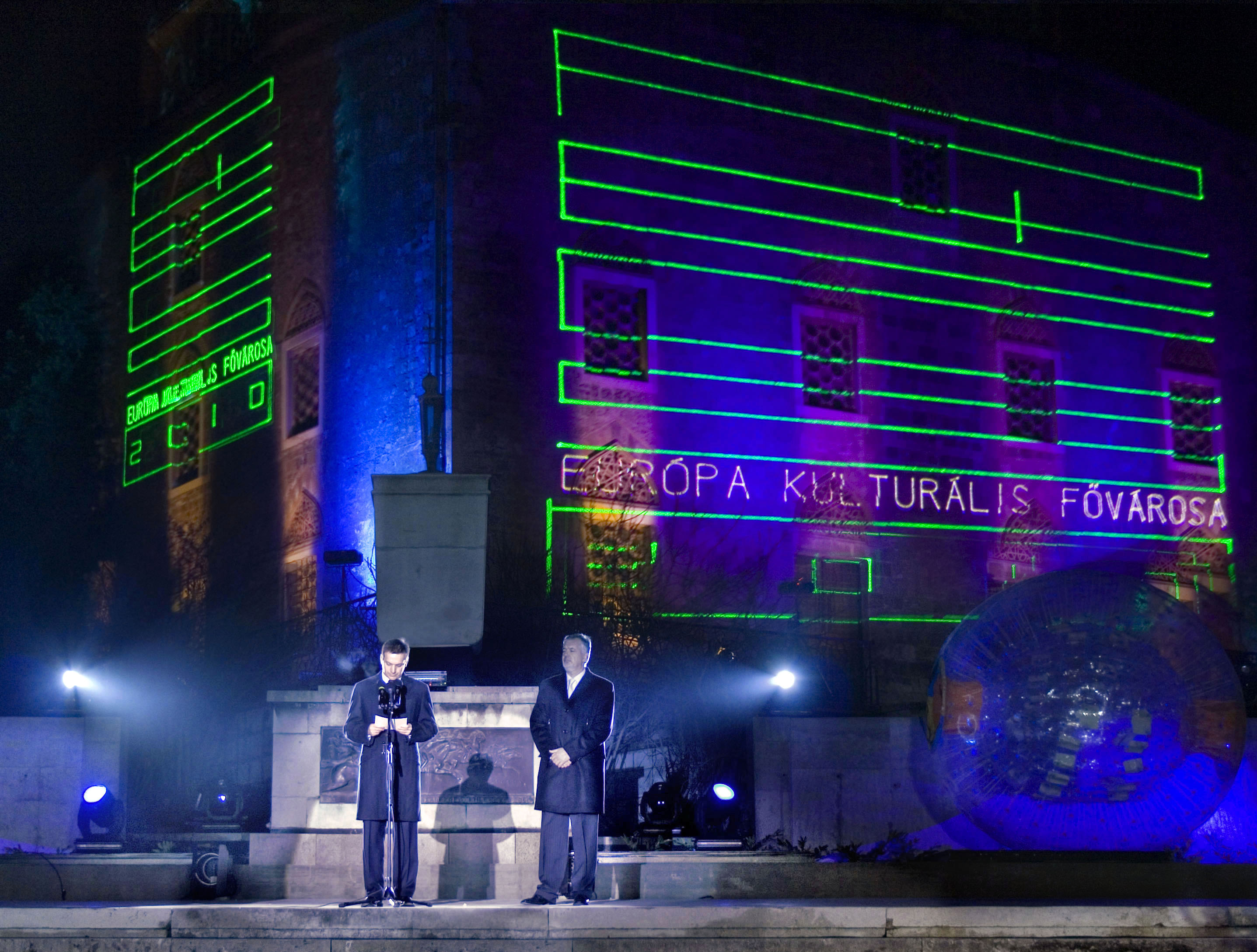 Hungarian Prime Minister Gordon Bajnai opened program European Capital of Culture PECS 2010. 10 january 2010.